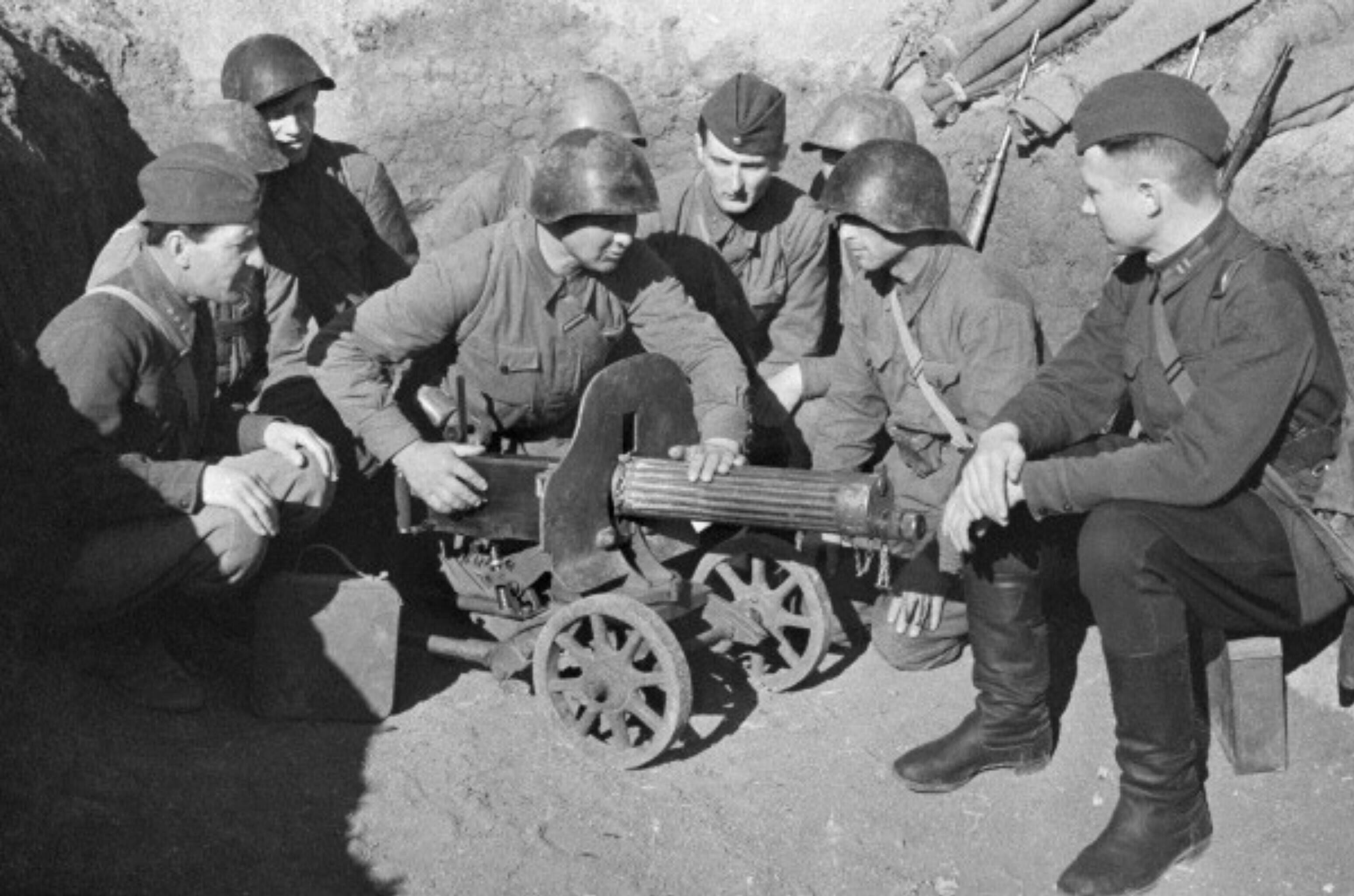 “Brigade commissar Veselov trains soldiers”. Brigade commissar Veselov, right, training soldiers, the Crimean Front, April/May of 1942.